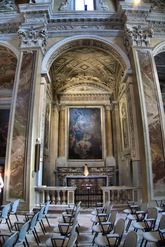 Chapel of the Pardon of Assisi